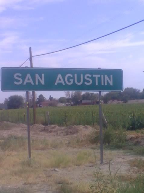 City limit sign San Agustín, Chihuahua, Mexico.